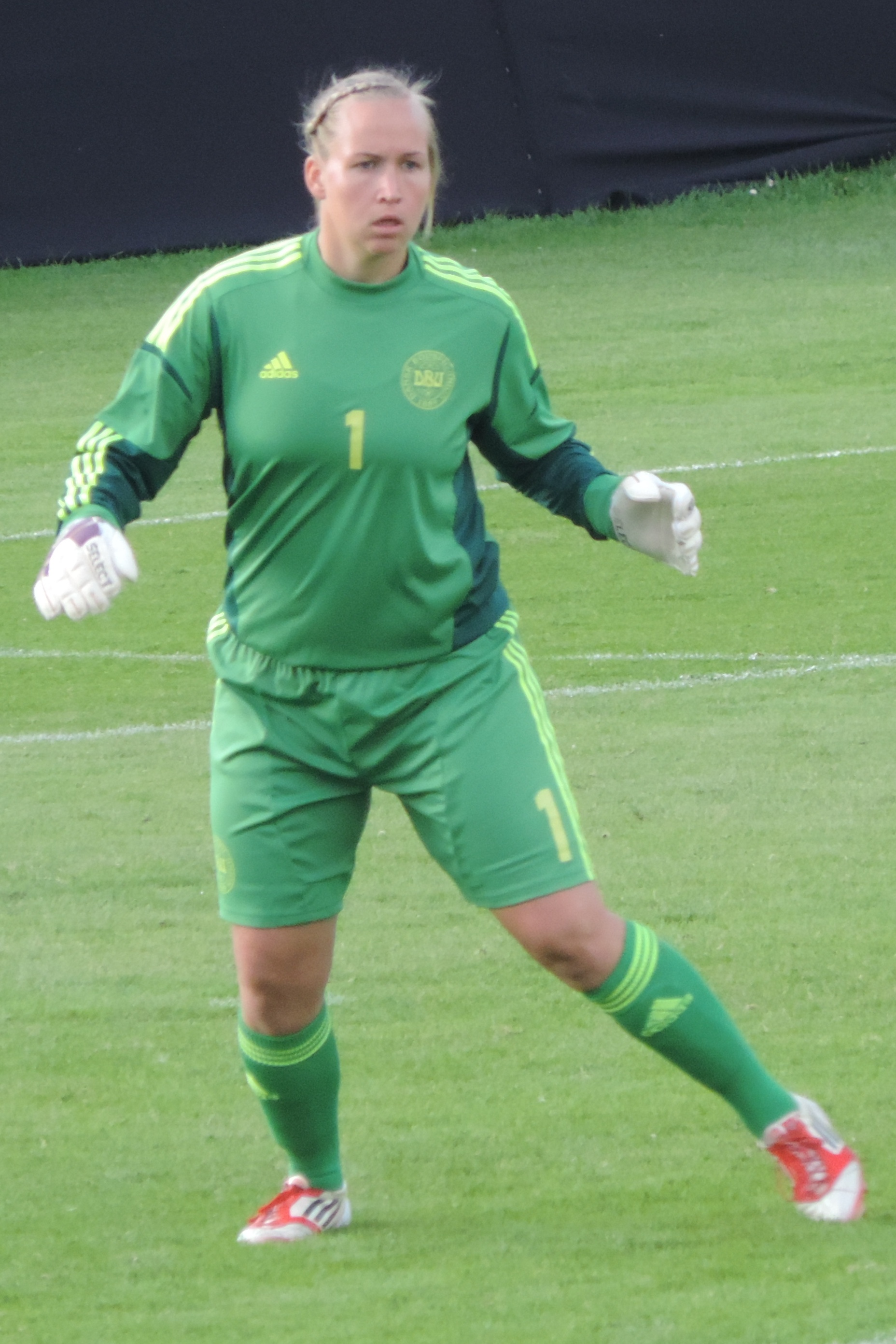 Stina Lykke Petersen Danish international football player. Hungary-Denmark 0-4